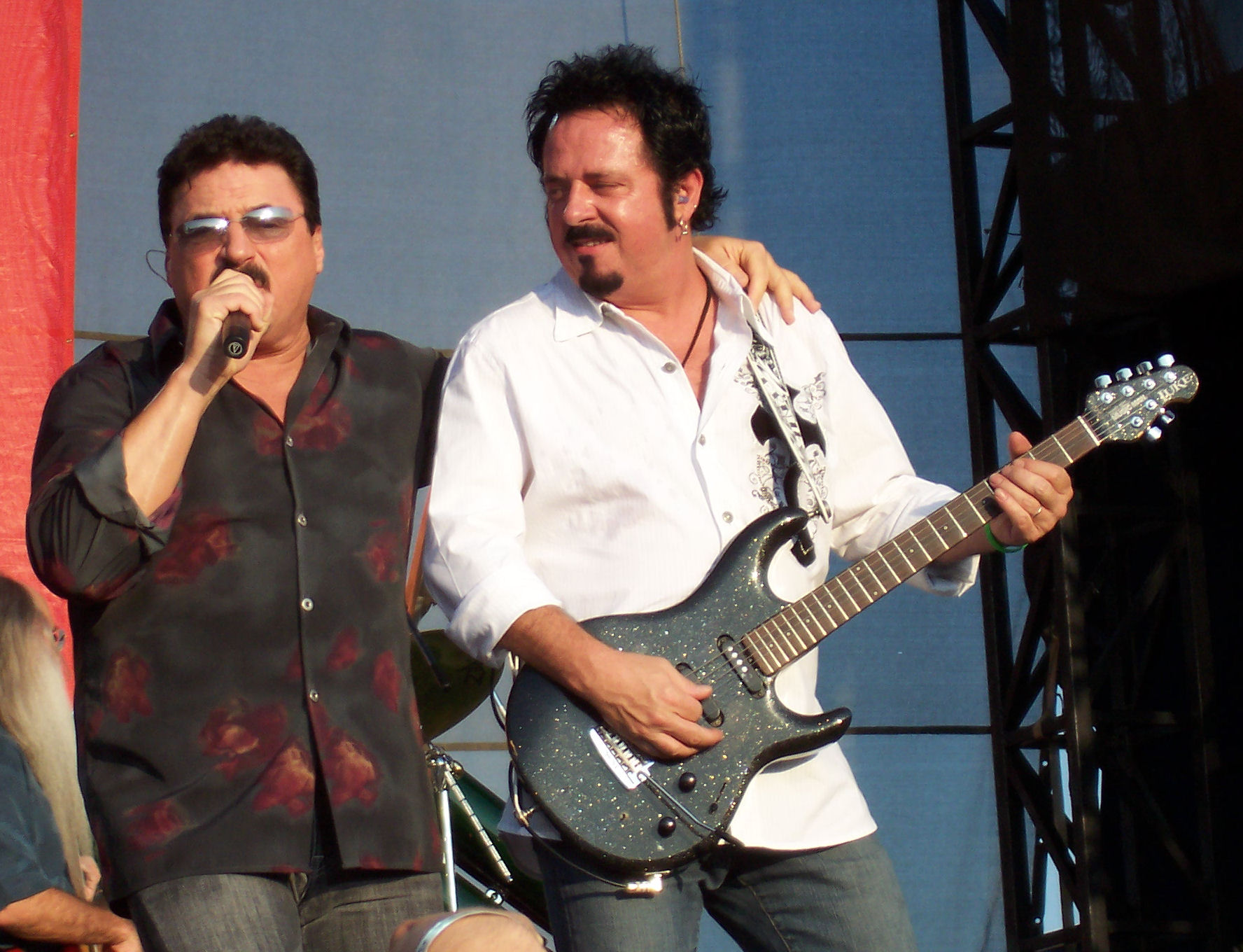 from Toto Moondance Jam concert 7/14/07. Photo by Matt Becker